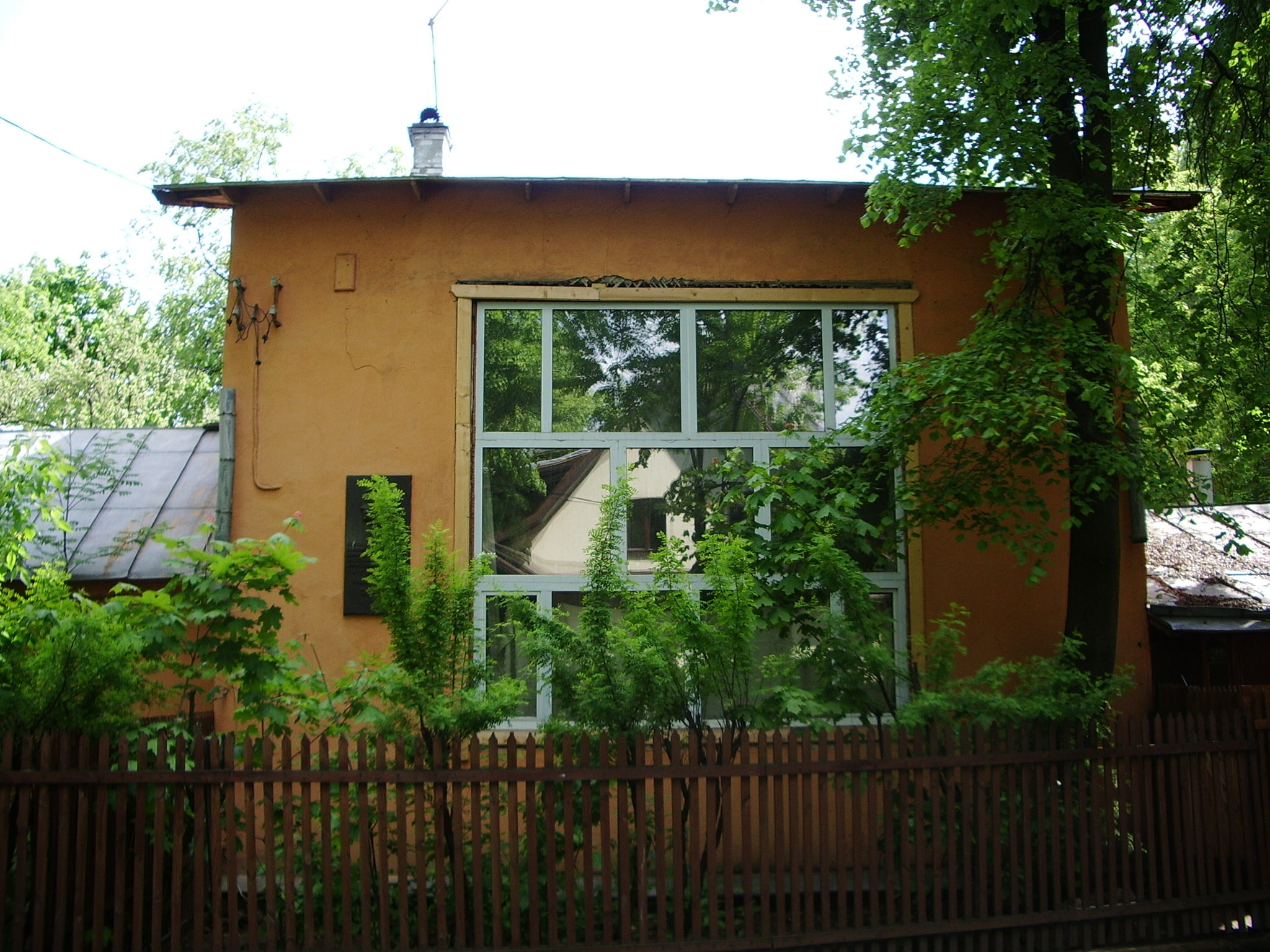 Surikova street 29. Sokol settlement in Moscow.